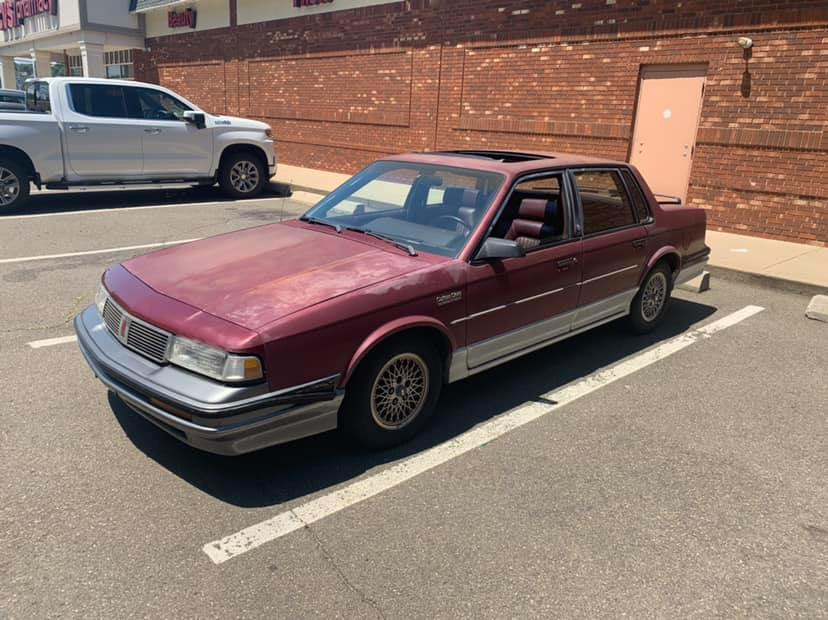 For 1988, sedan models were offered with GM's CF5 Power Astroroof, which carried an MSRP of $925.